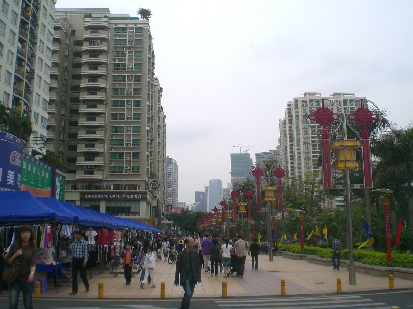 深圳街景 - 福田區 多層大廈 & 步行街 攤販 & 遊人